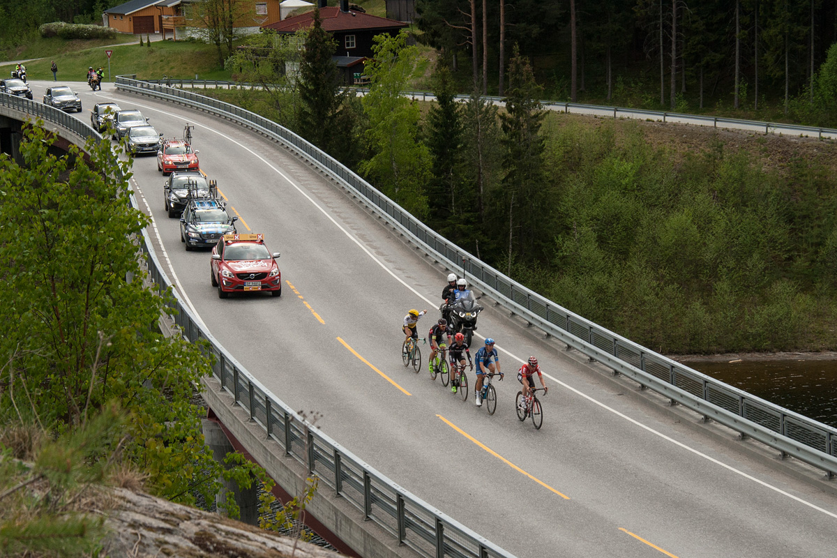 Breakaway at stage 2 of Tour of Norway 2016 on Kviteseid bridge in Kviteseid. From first to last: Gert Dockx (LTS), Amund Grøndahl Jansen (TJO), Cesare Benedetti (BOA), Matthias Krizek (ROT), Steven Lammertink (TLJ).